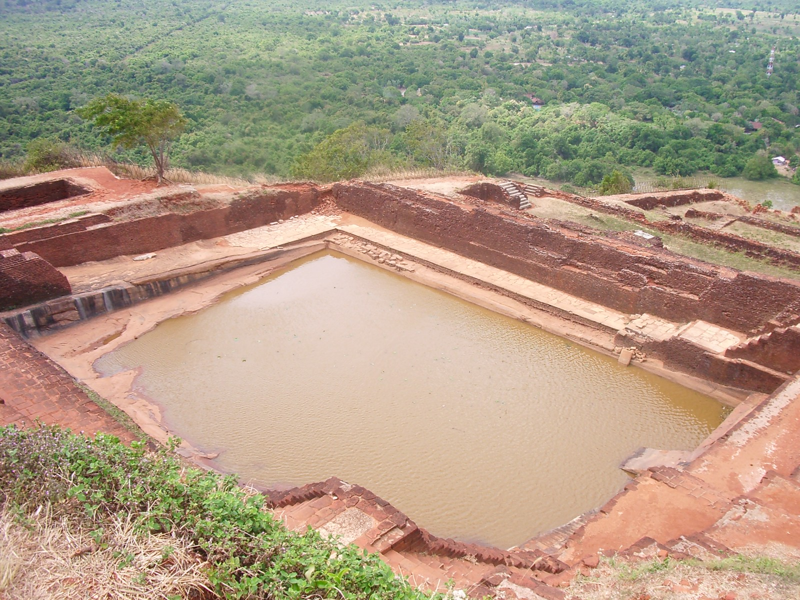 Restes de la fortalesa de Sigiriya